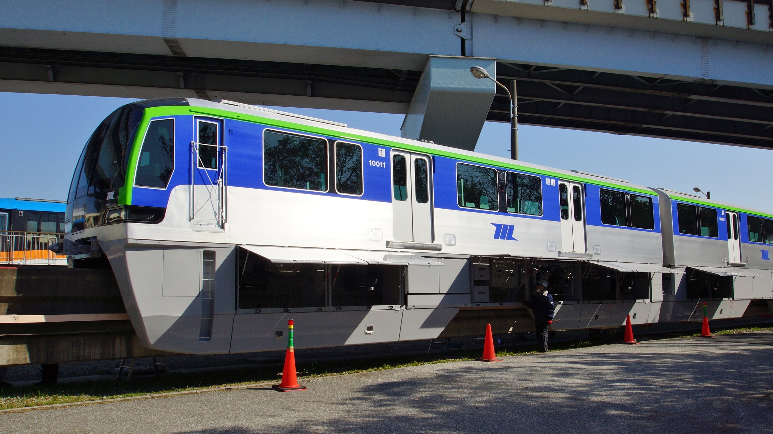 The first Tokyo Monorail 10000 series train delivered, set 10011, undergoing inspection at Showajima Depot